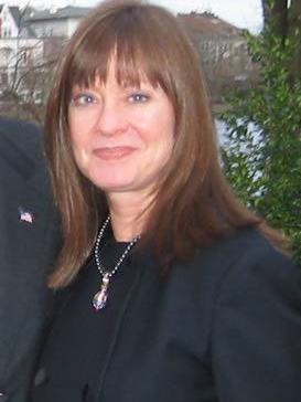 Rudy Giuliani went to England and Germany in late January 2003 to deliver speeches and promote our book 'Leadership.' I took this photo in Hamburg on January 22, 2003.